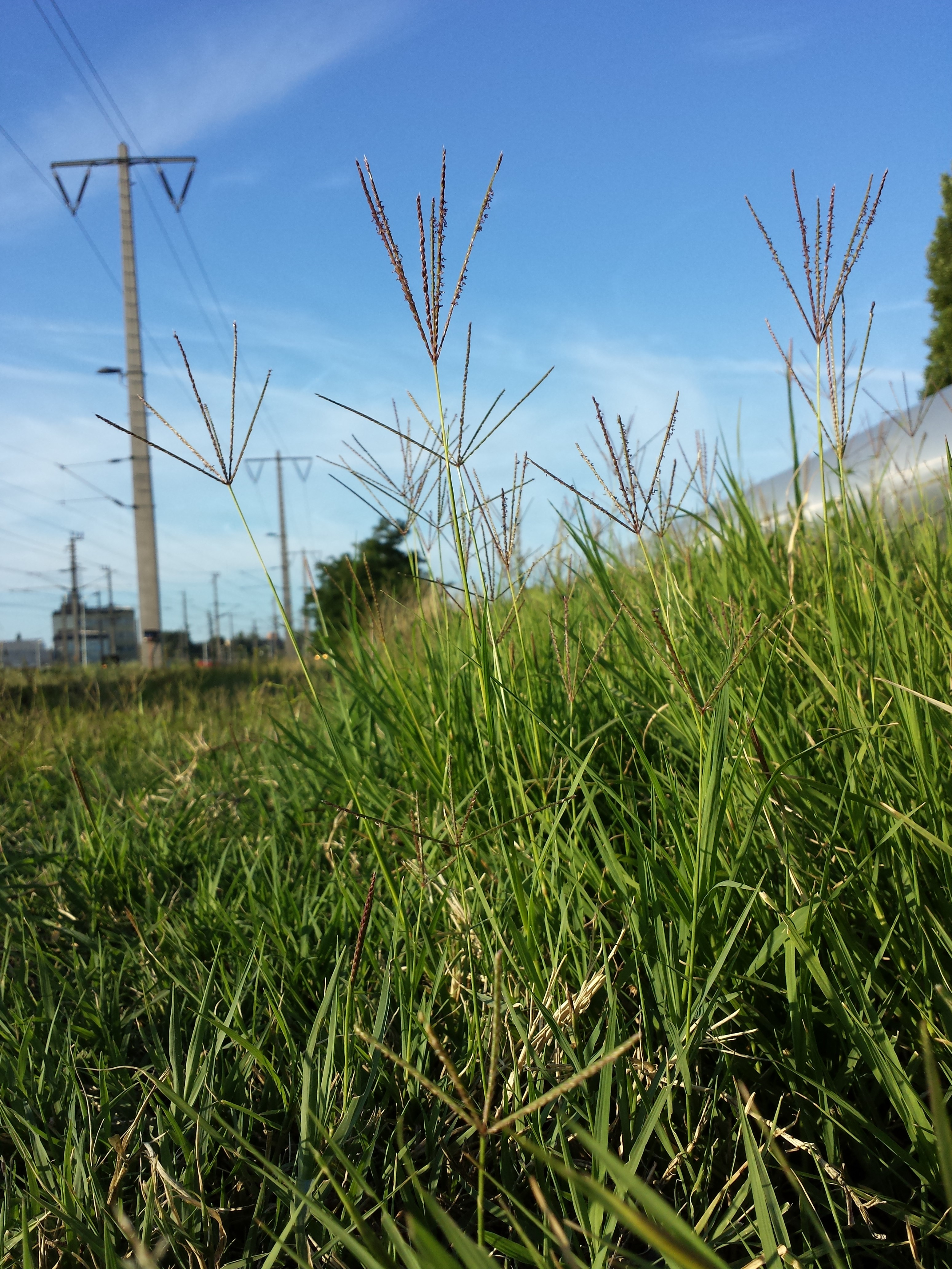 Habitus Taxonym: Cynodon dactylon ss Fischer et al. EfÖLS 2008 ISBN 978-3-85474-187-9 Location: Floridsdorf/Leopoldau rail station, Vienna-Floridsdorf - ca. 160 m a.s.l. Habitat: ruderal area